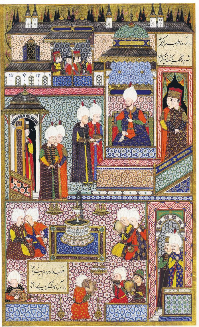 Sultan Suleiman I receives his Grand Admiral, Hayreddin Barbarossa. Ottoman miniature painting from the Süleymanname. Hazine. 1517, folio 360a